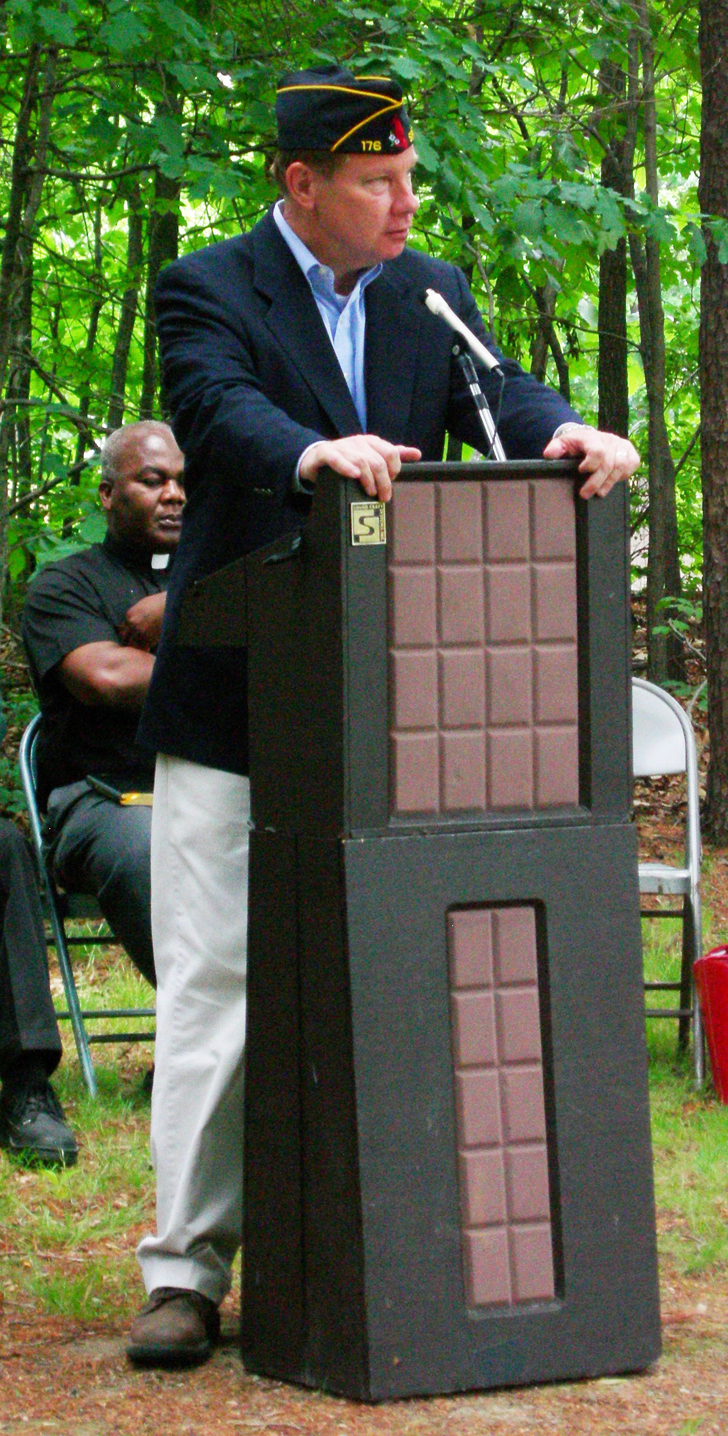 Representative Tom Davis speaking at a Memorial Day ceremony at Ox Hill Battlefield Park in Virginia.